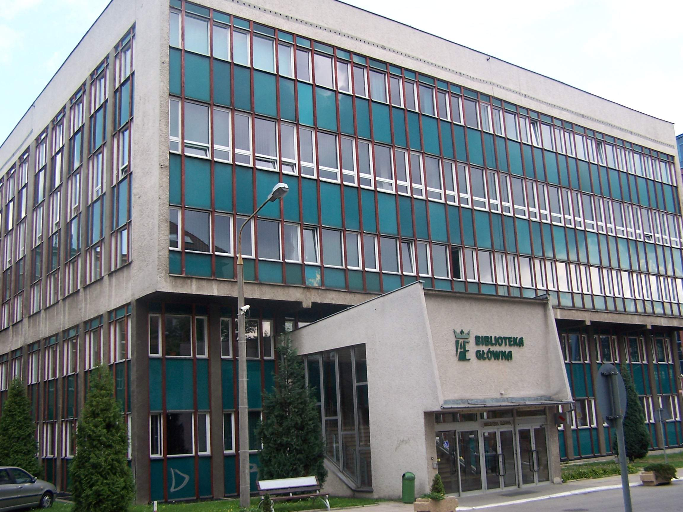 Photo by Piotrus. Academy of Economics in Kraków. Main Library (Biblioteka Główna).